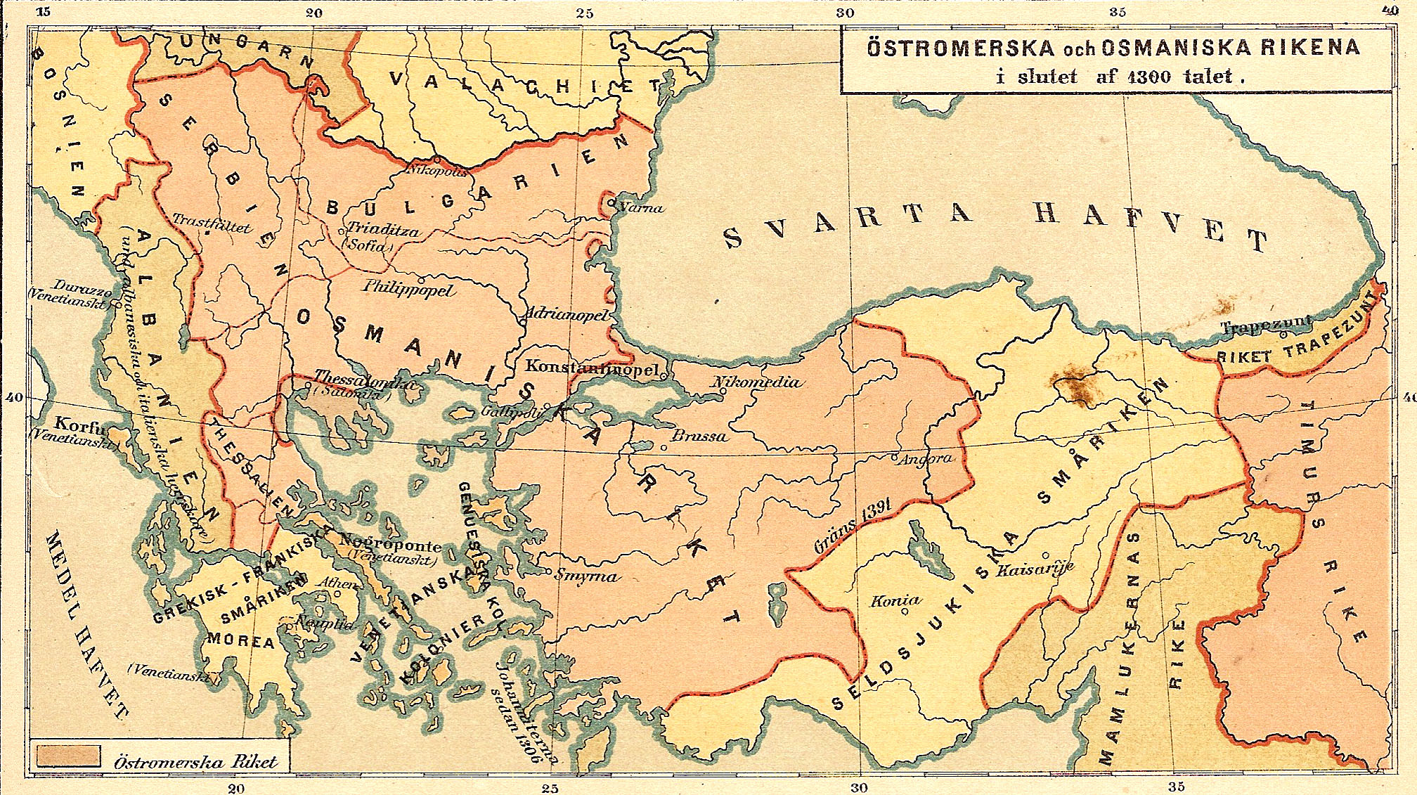 Historic map (in swedish) of the East roman empire and the osman empire in the late 14th century